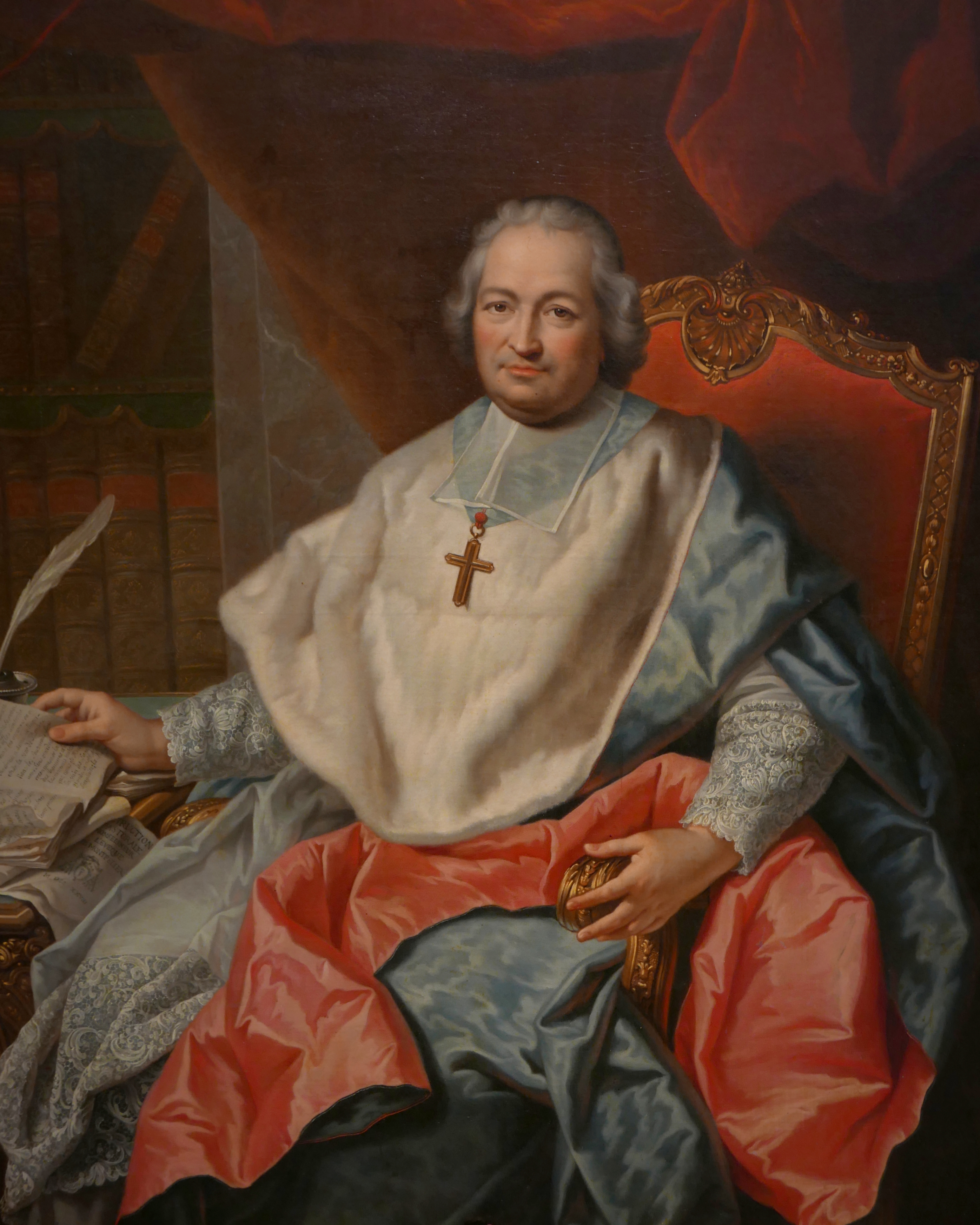 Montpellier (Hérault, Languedoc, Occitanie), Musée Fabre, temporary exhibition, unfortunately interrupted by the covid 19 pandemic then extended until June 28, 2020, "Jean Ranc, a native of Montpellier at the court of Kings". Charles Joachim Colbert de Croissy, bishop of Montpellier from 1697 to 1738, copy made around 1738-1739 of a canvas painted by Jean Raoux in 1730, from the former Montpellier hospices; deposited at the Fabre museum in the same city since 1916. The original painting was offered by Jean Raoux to the bishop's brother Jean-Baptiste Colbert, Marquess of Torcy. Height: 140 cm (55.1 in); Width: 108 cm (42.5 in) dimensions QS:P2048,140U174728;P2049,108U174728